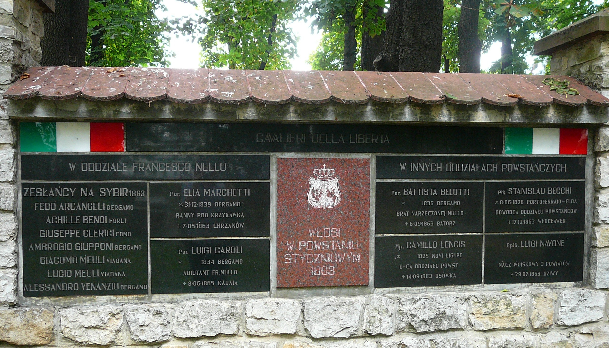 Plaque commemorating Italian volunteers who fought for Polish independence in January Uprising of 1863. Old cemetery in Olkusz (Poland).